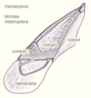 Wing (hemielytron) of Miridae, Heteroptera (bug)